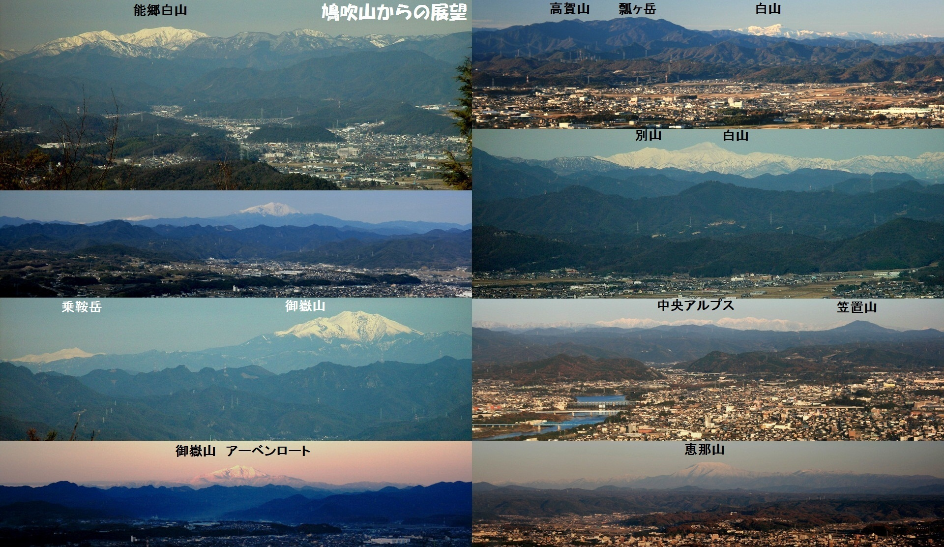 Montages of view from Mount Hatobuki